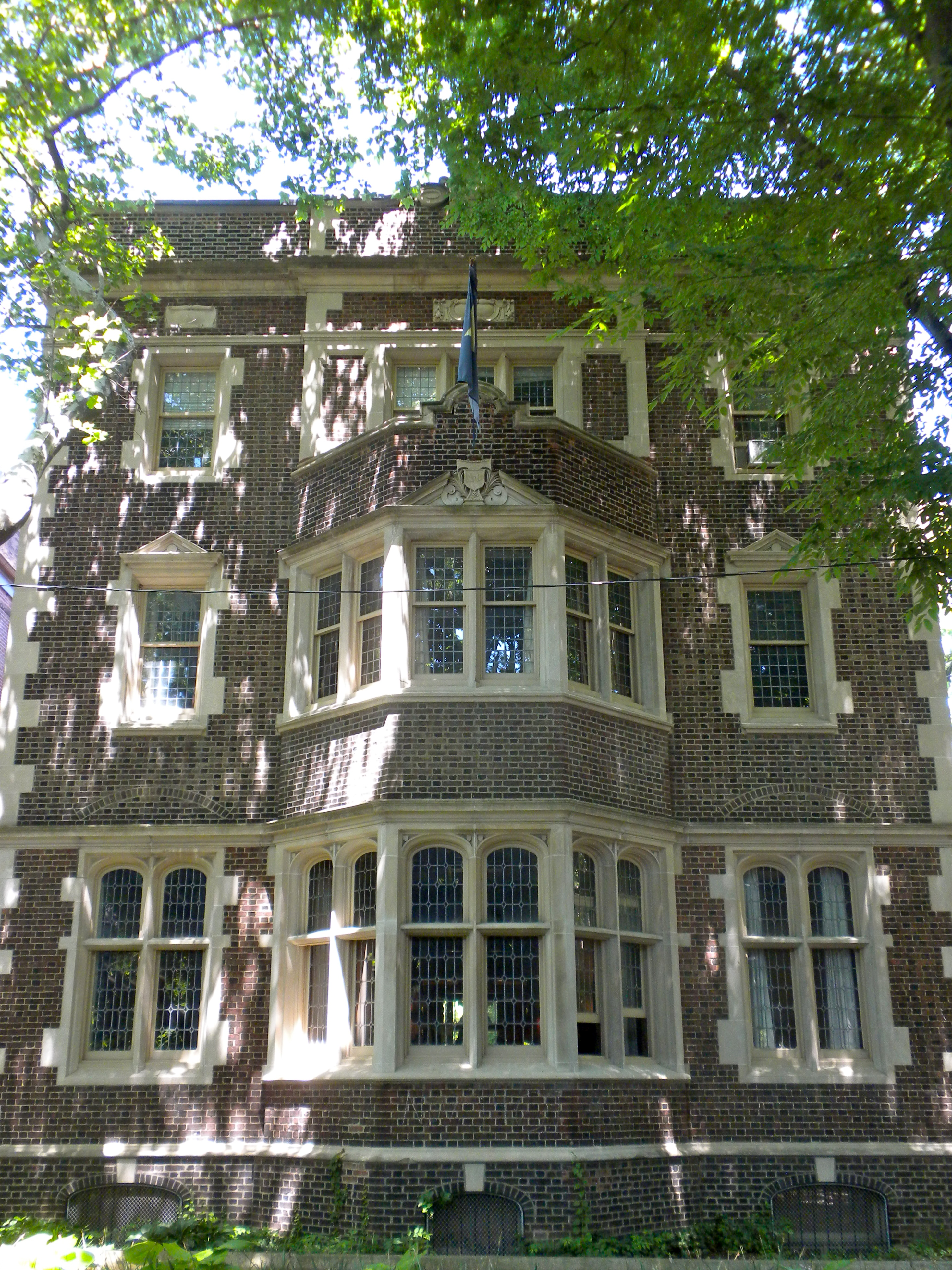 St. Anthony Hall House on the NRHP since February 15, 2005. At 3637 Locust Walk, in the middle of the University of Pennsylvania campus, right across from the Wharton School in University City area of Philadelphia. A fairly small building, not in itself a church.